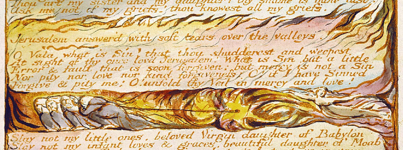 Blake Jerusalem Plate 20 copy E lower detail